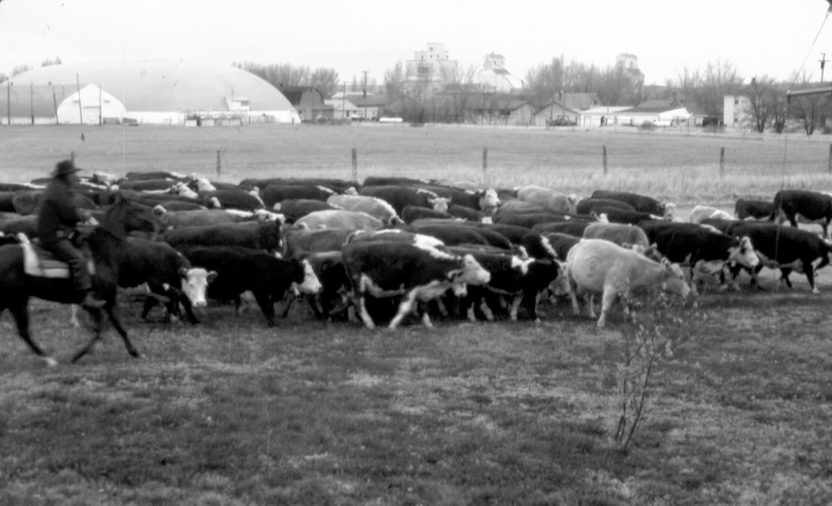 Annual Saskatchewan Cattle Drive through Val Marie